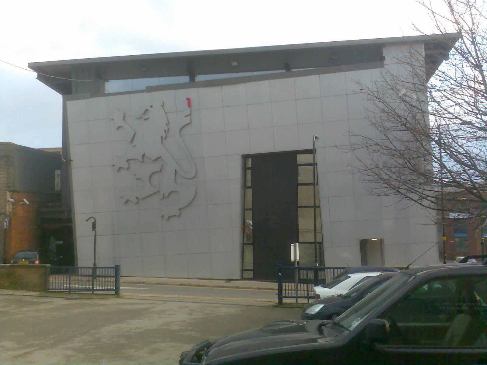 GC1 1 (1)